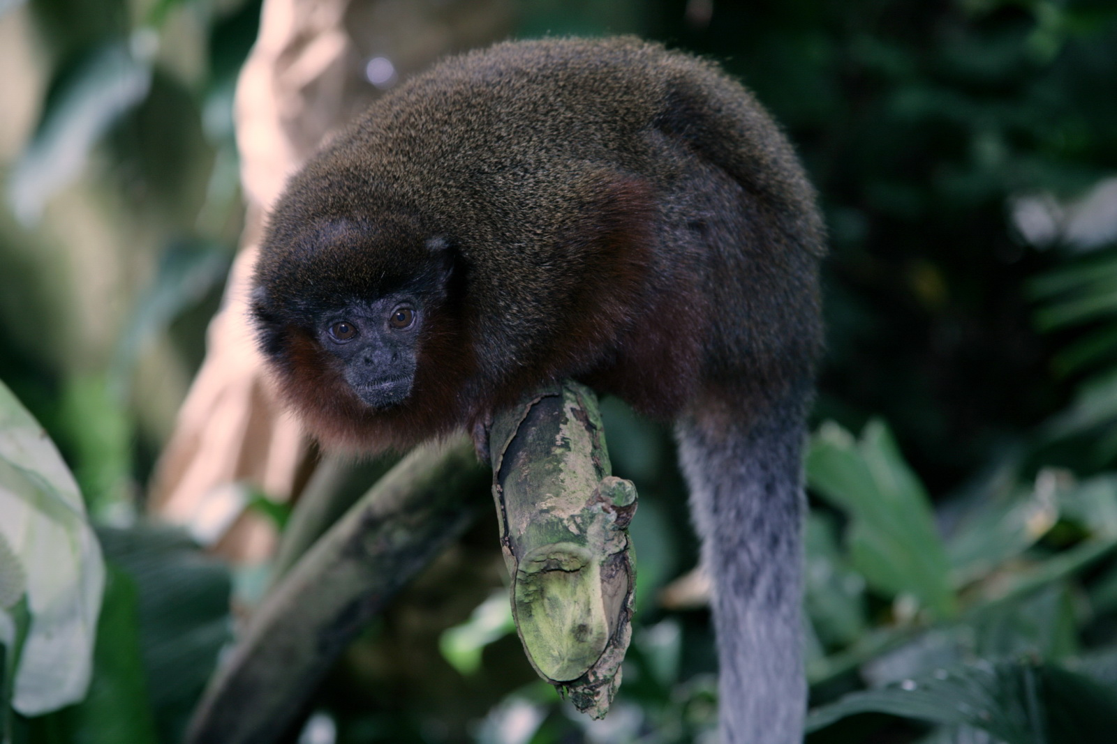 Dusky Titi Monkey (Callicebus brunneus) in Smithsonian National Zoo